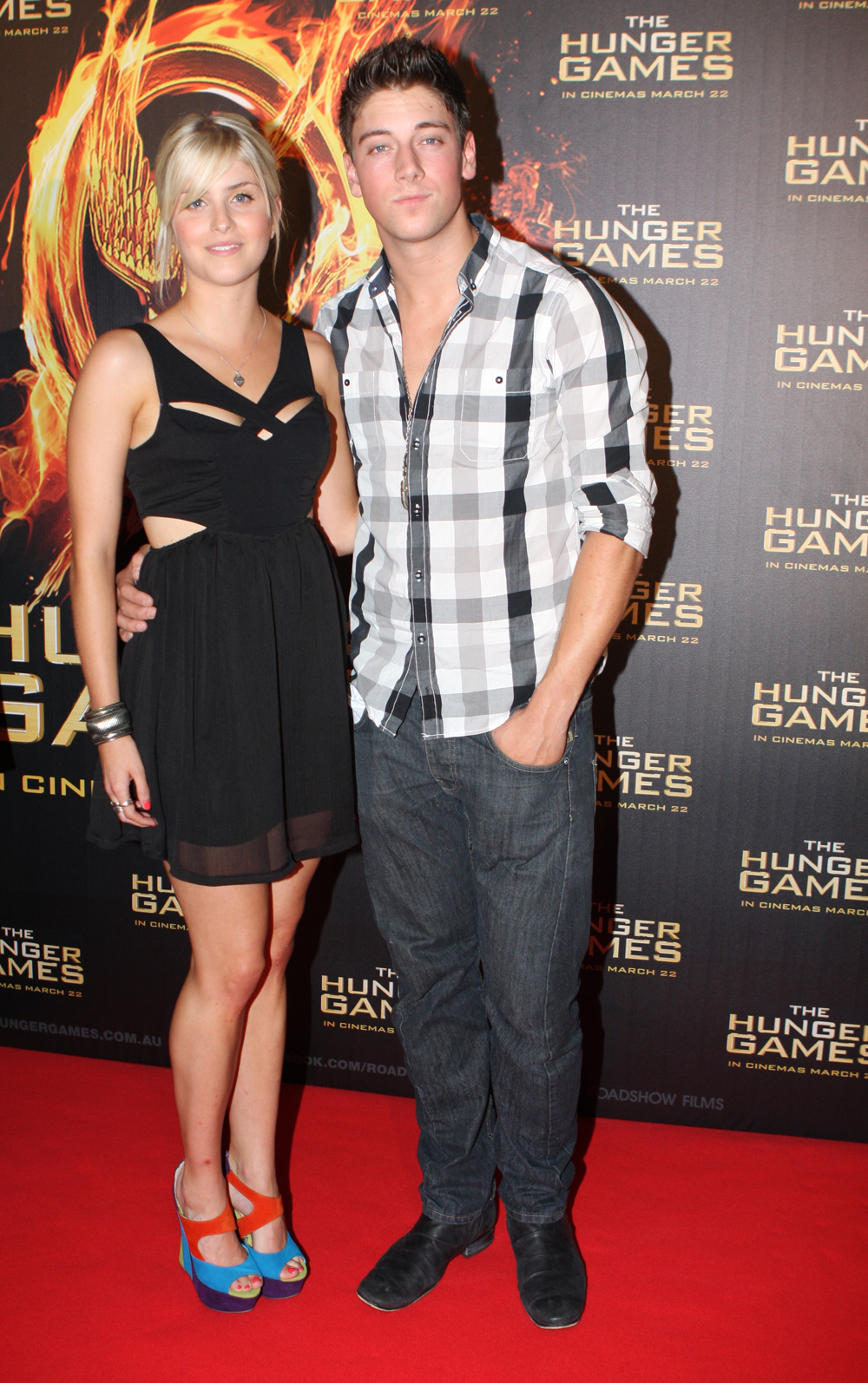 Australian actors Lincoln Younes and Amy Ruffle at The Hunger Games premiere, Sydney, Australia